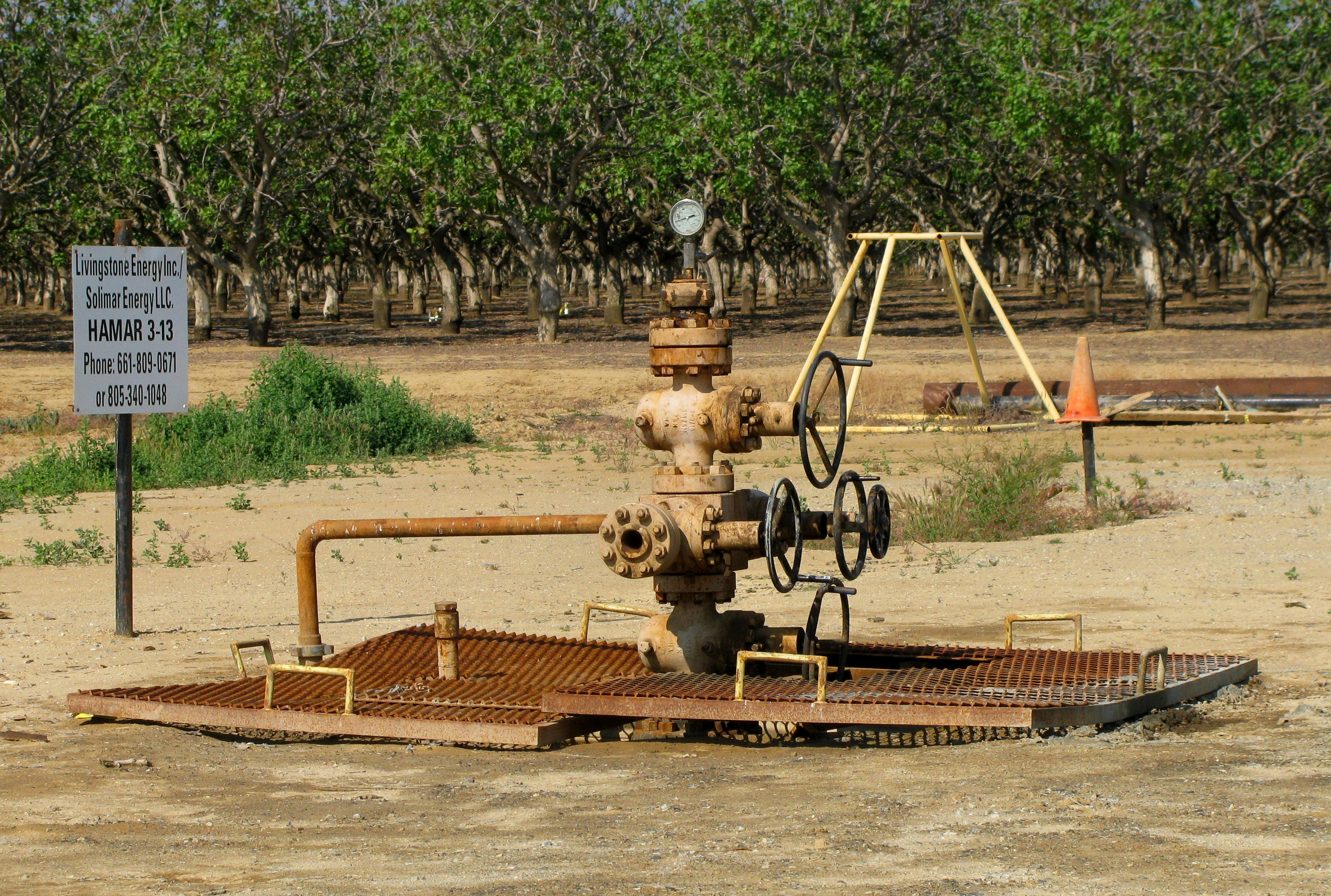 A natural gas well (produces gas only, no oil). Southeast Lost Hills. Photo by self, GFDL/equiv.